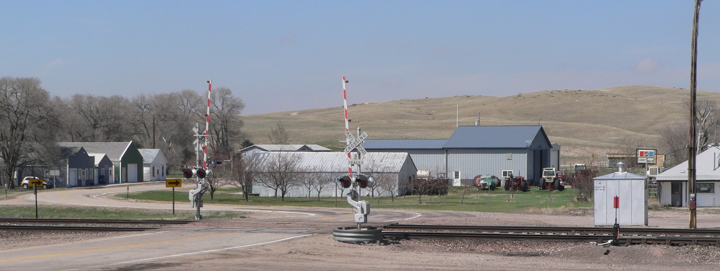 Lakeside, Nebraska)): seen from the south, from Nebraska Highway 2, looking across the BNSF Railway tracks.